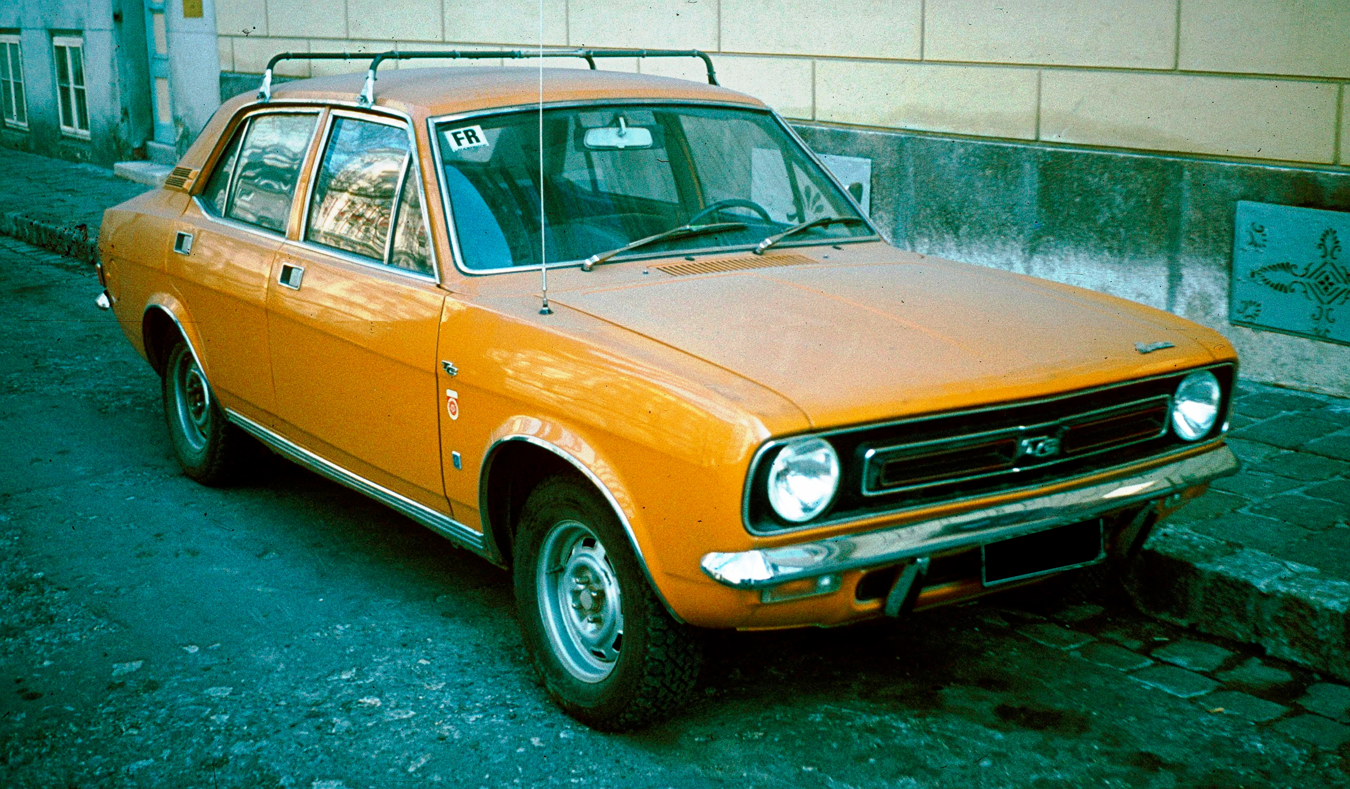 Morris Marina 1.8 TC in Wien